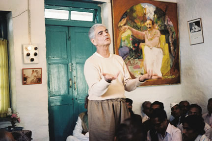 Eruch Jessawala praying in Mandali Hall at Meherazad. Painting of Meher Baba on the wall behind Eruch is by Lyn Ott.